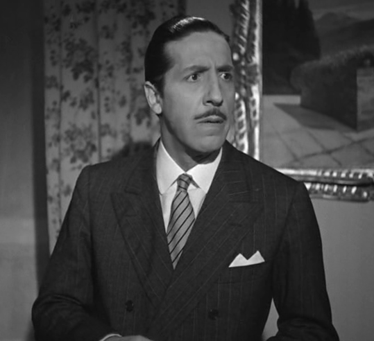 Italian actor Guido Morisi in a scene of the film Campo de' fiori